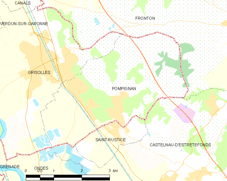 Map of French municipality Pompignan